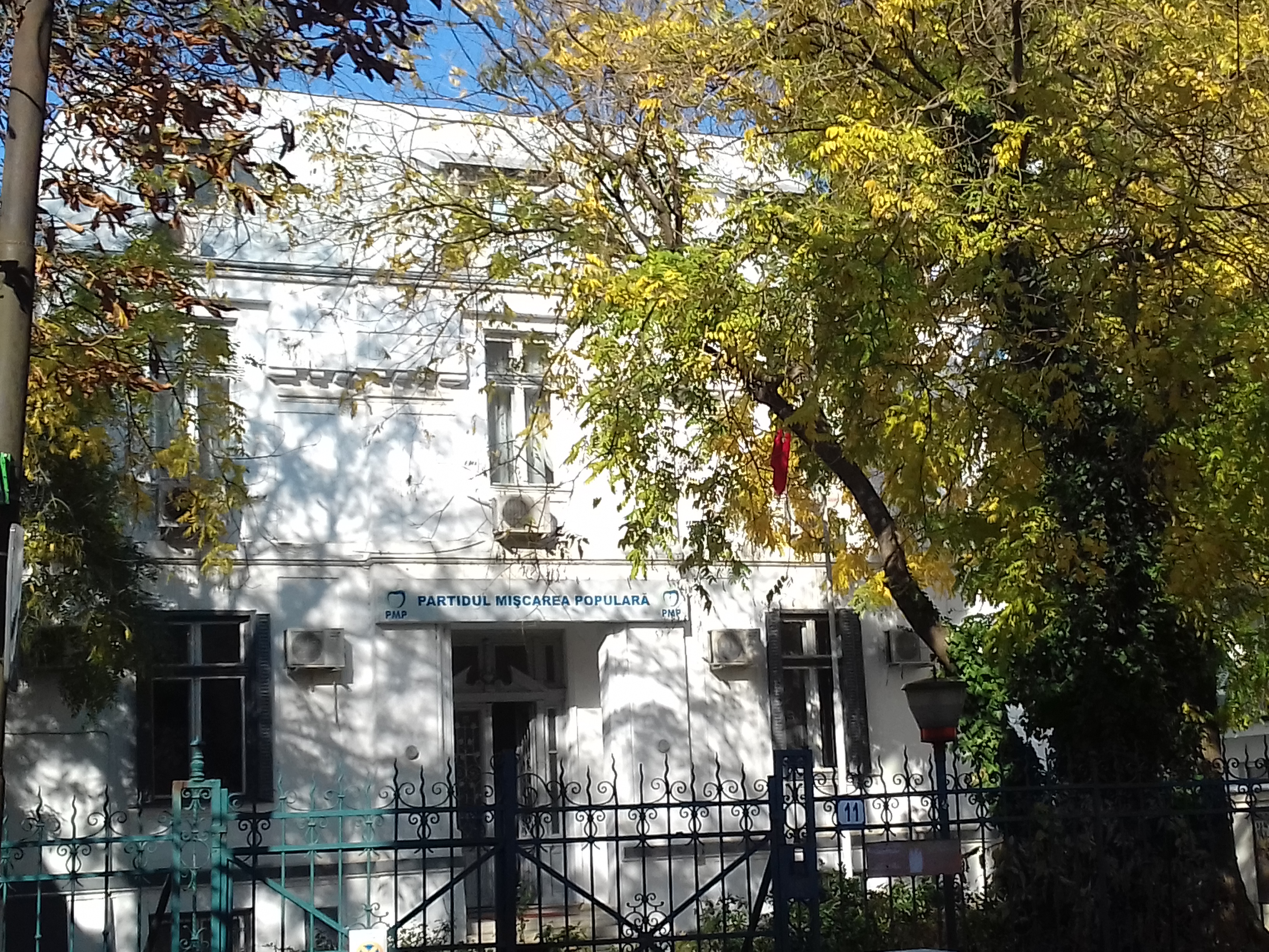 People's Movement Party (Romania) Party headquarter